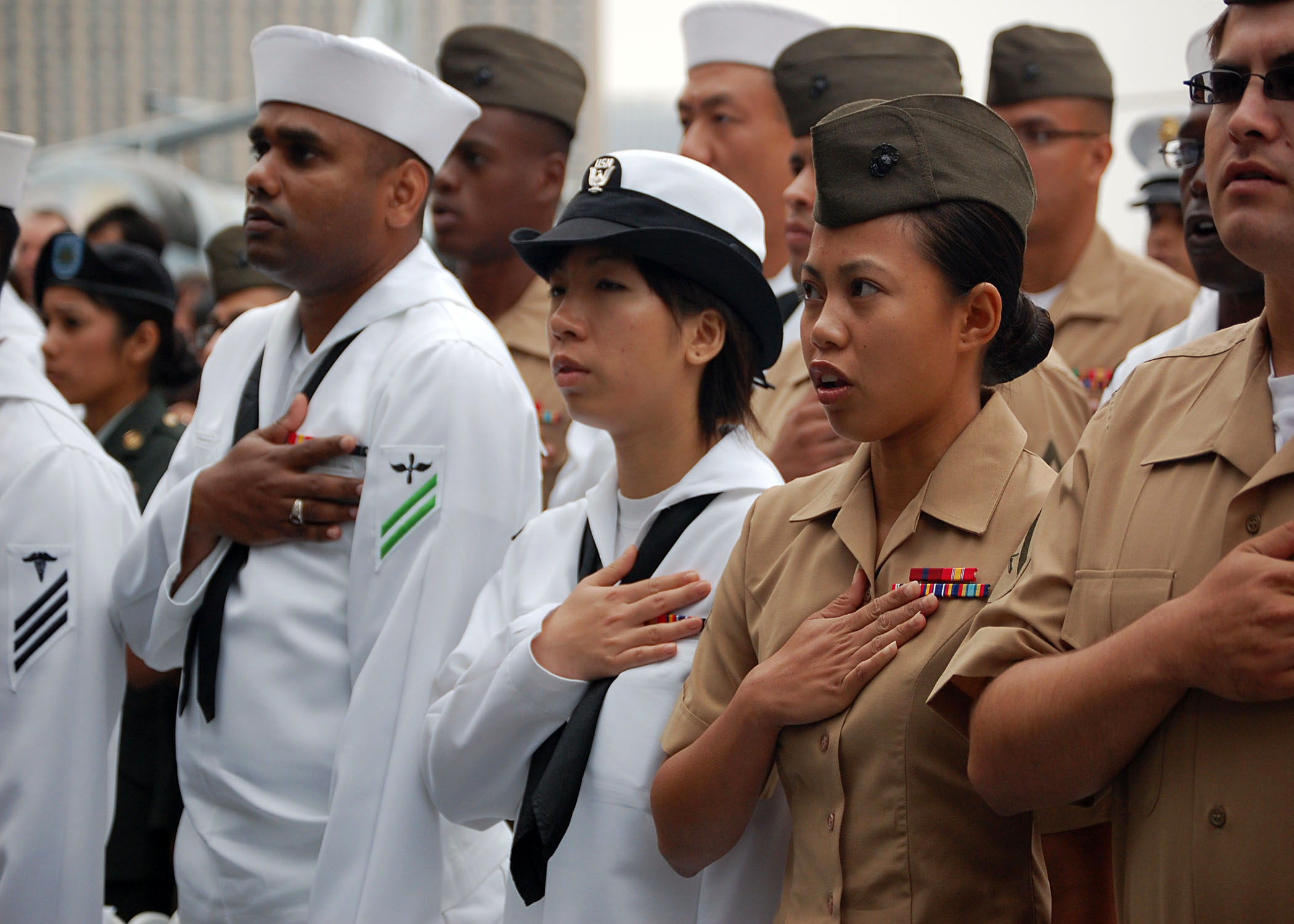 SAN DIEGO, Calif. (May 28, 2009) Sailors, Marines, Soldiers and Airmen recite the pledge of allegiance during a naturalization ceremony at the USS Midway Museum. Marine Corps Master Sgt. Cutberto Orozco led the pledge of allegiance for ninety-three San Diego based service members representing thirty-two countries during the ceremony. (U.S. Navy photo by Legalman 1st Class Jennifer L. Bailey/Released)